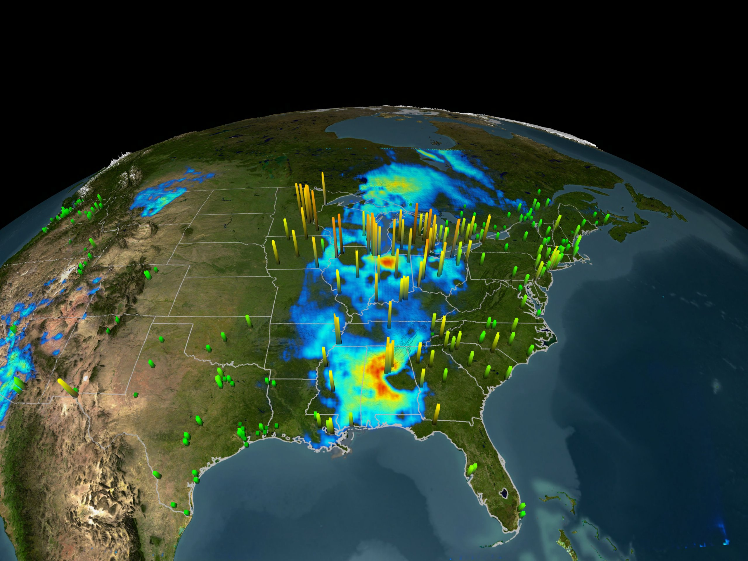 Air quality from EPA and MODIS on 11 September 2003